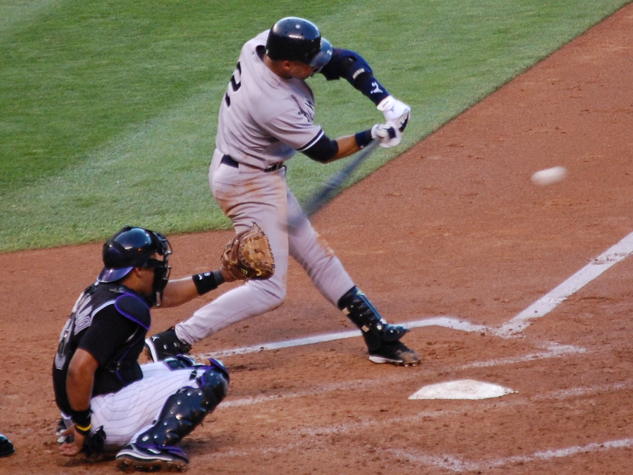 Derek Jeter at the New York Yankees vs. Colorado Rockies game on June 19, 2007.